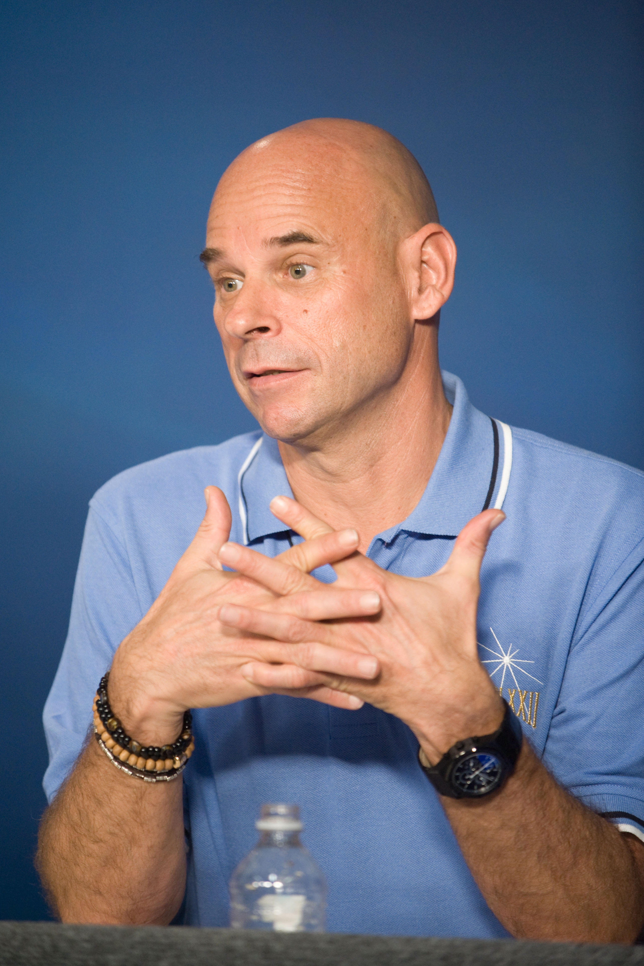 Spaceflight participant Guy Laliberté responds to a reporter's question during a press conference at the Johnson Space Center on July 23. Laliberté shared the days with Expedition 21/22 crewmembers Jeff Williams and Maxim Suraev.